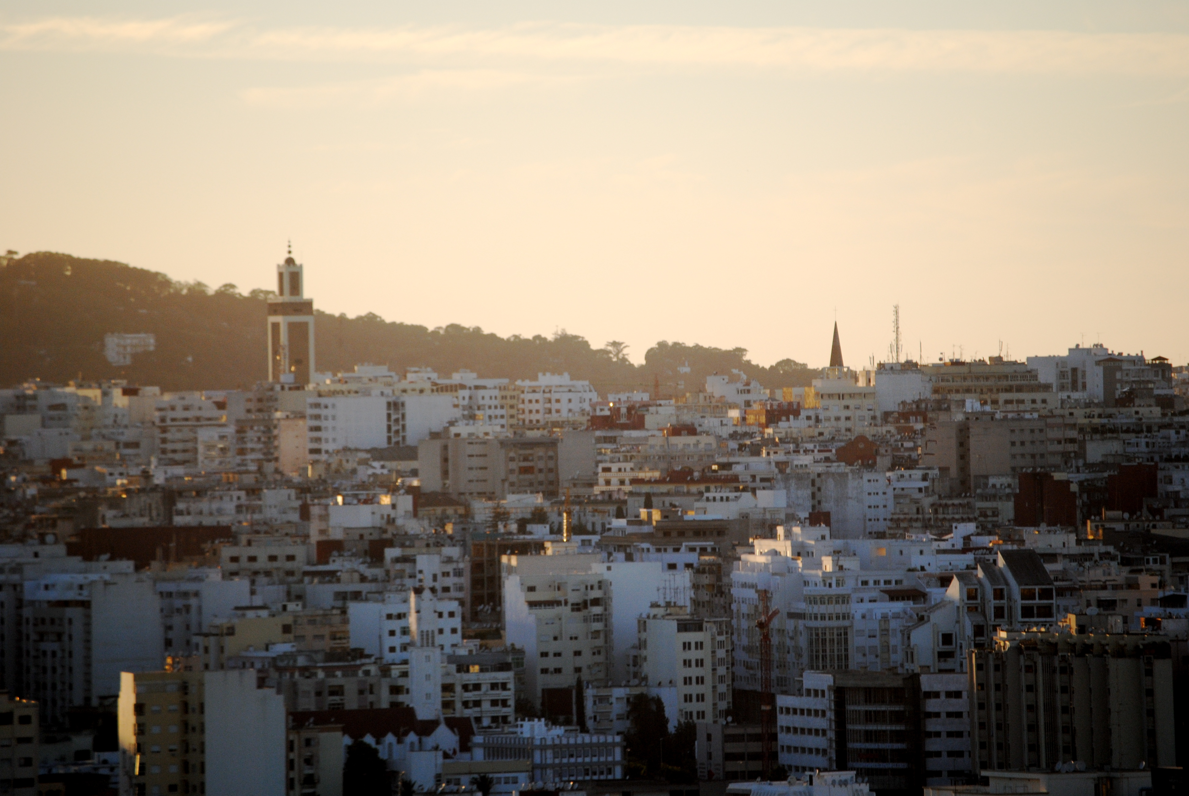 Tangier